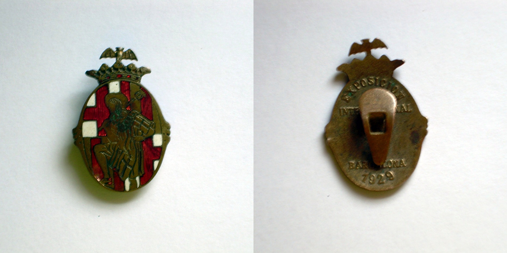 Lapel Pins